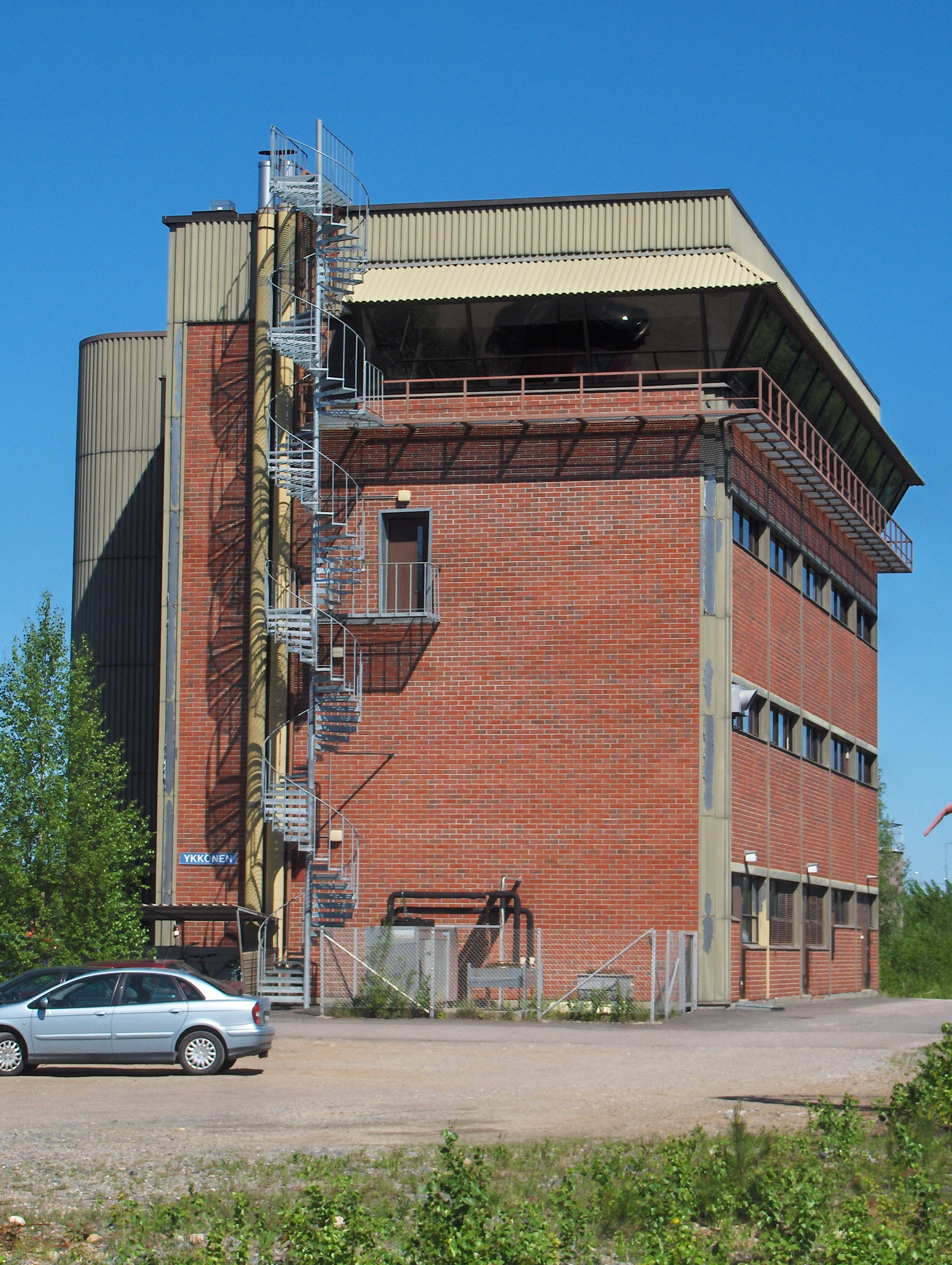 Rail traffic control centre in Pieksämäki, Finland